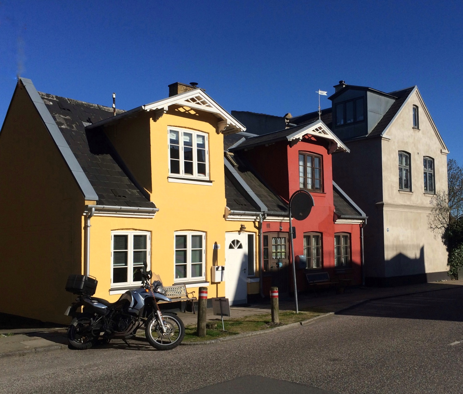 Old houses in the former fisherman's village Skovshoved just north of Copenhagen